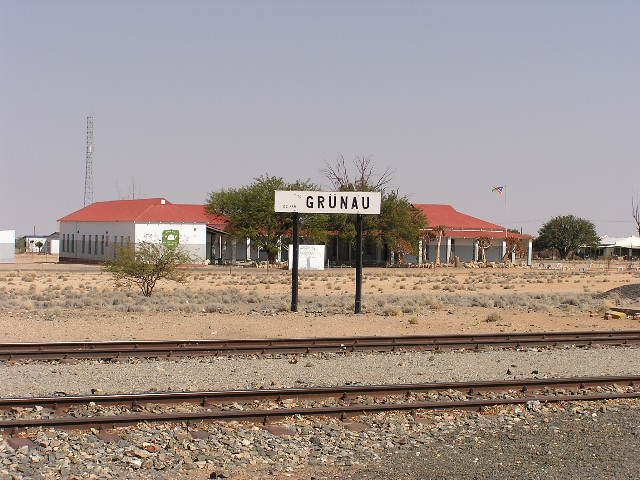 picture of Grünau, Namibia